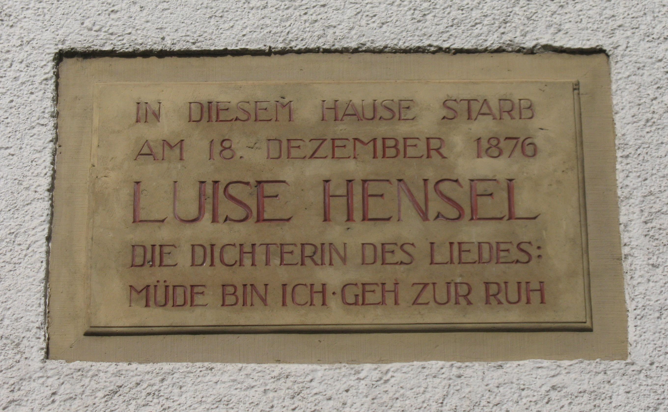 Memorial inscription for Luise Hensel in Paderborn in North Rhine-Westphalia, Germany